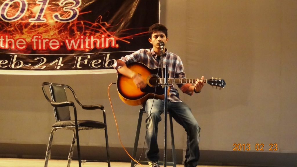 culturals